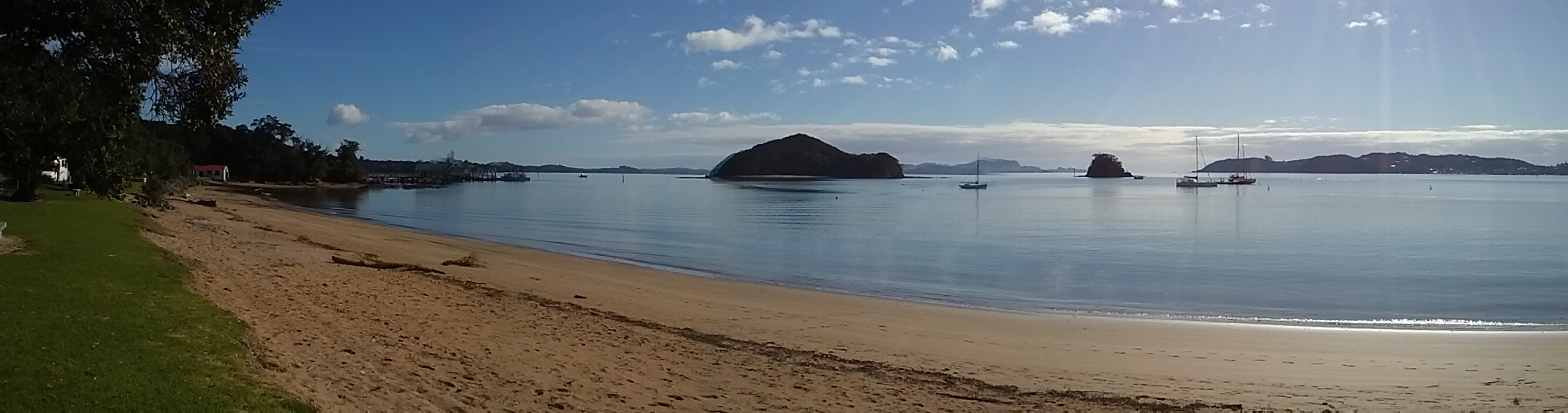 Taiputuputu Pahi Beach in Paihia, New Zealand.